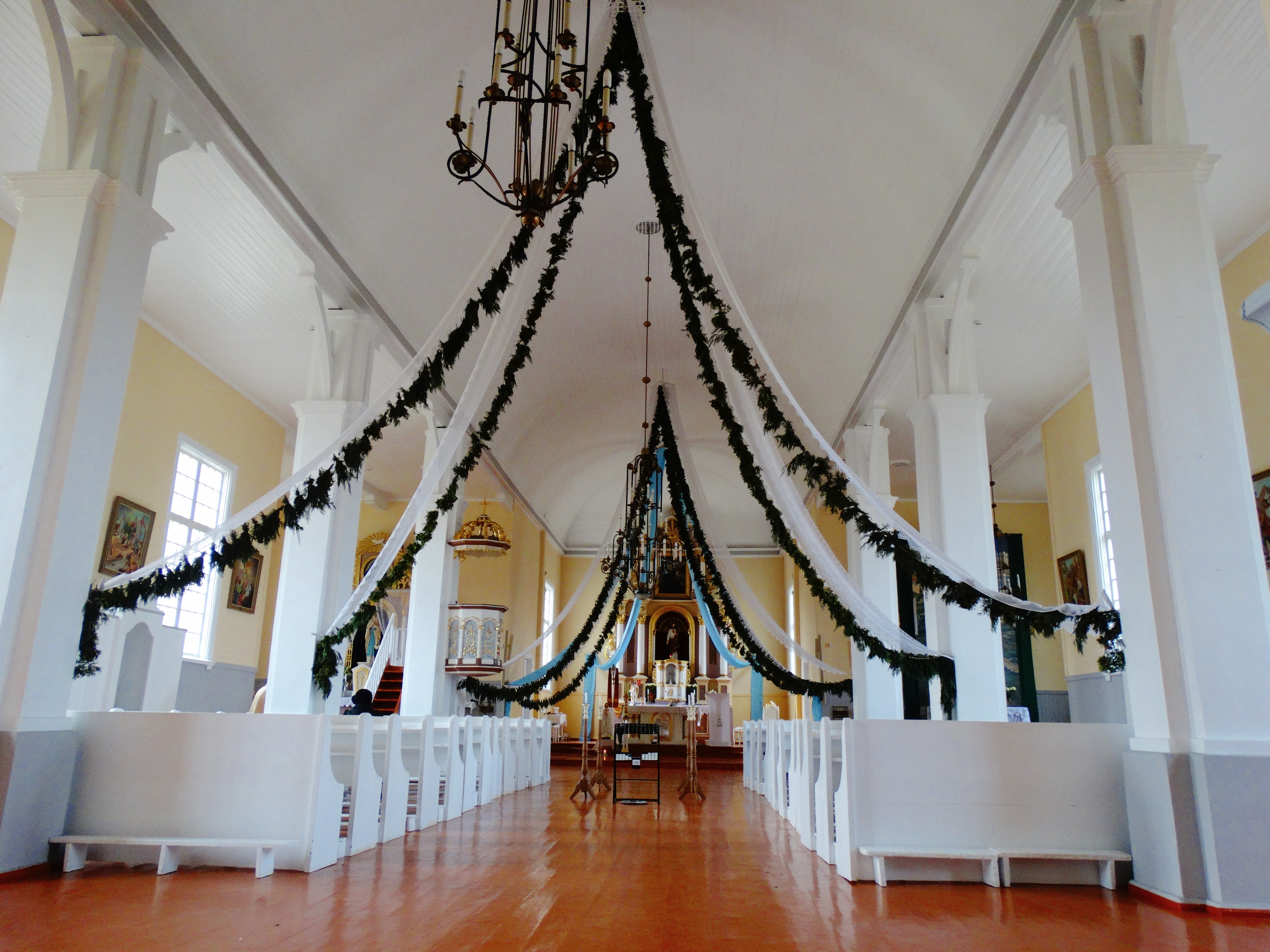 Catholic Church interior, Kazlų Rūda, Lithuania